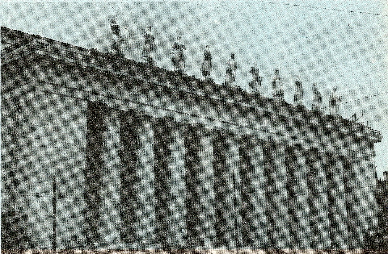 Eva Perón Foundation (850 Paseo Colón Ave.), today Faculty of Engineering of the University of Buenos Aires